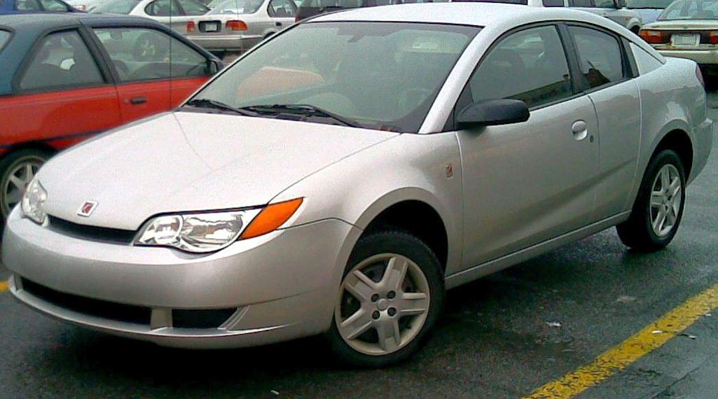 2003-2004 Saturn Ion Coupe photographed in Montreal, Quebec, Canada.